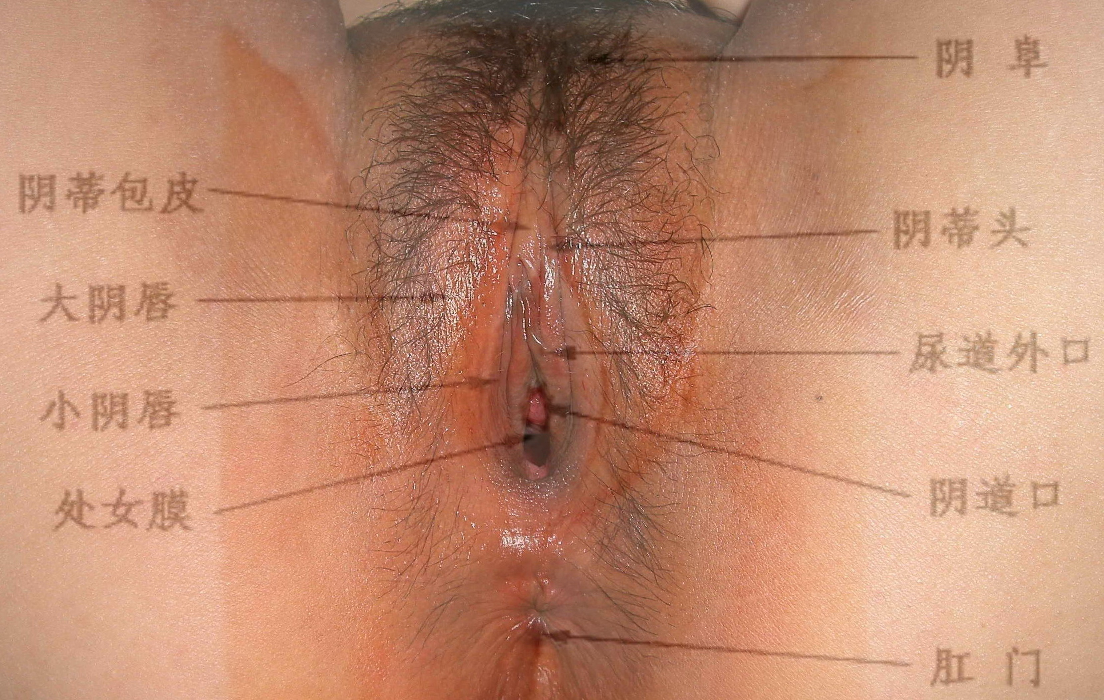 Female reproductive organs to see through